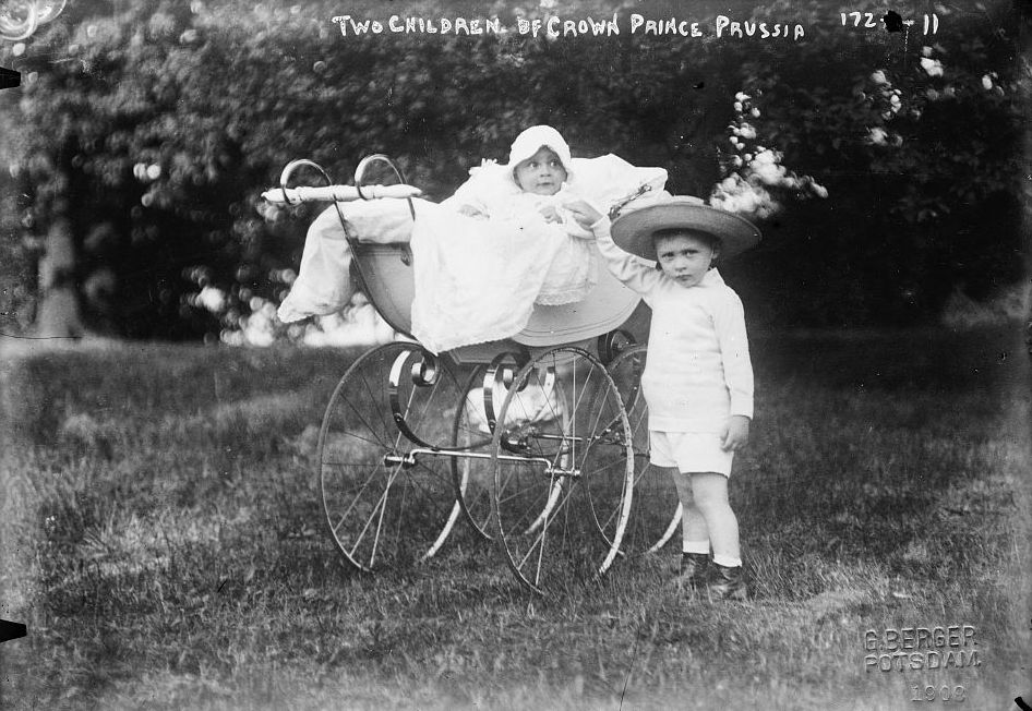 Two children of the Crown Prince of Prussia.Reproduction Number: LC-DIG-ggbain-00977